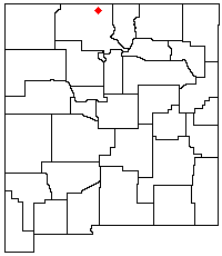 Location of the Brazos Mountains within New Mexico.